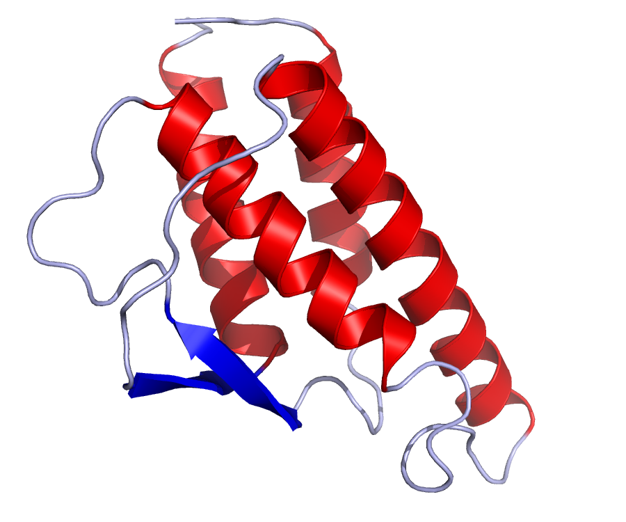 Crystal structure of IL-4 as published in the Protein Data Bank (PDB: 2INT)